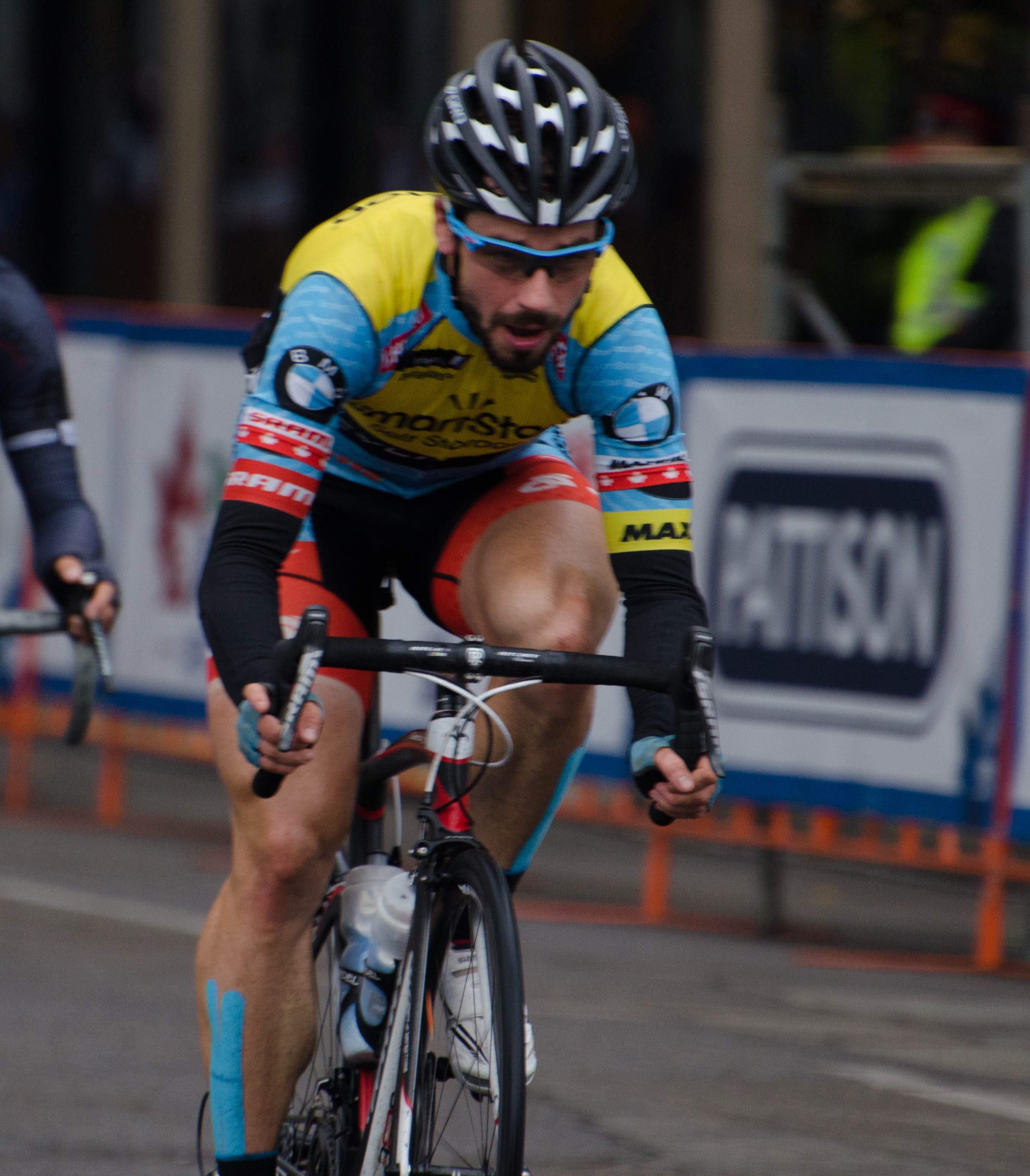 Zach Bell at stage 5 of the 2014 Tour of Alberta